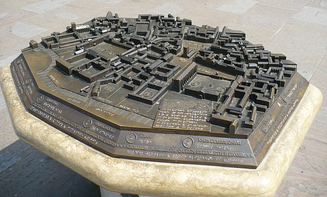 3D map of Cambridge Colleges. This model, with its Braille legend, can be seen in King's Parade at the lower left of 817861.